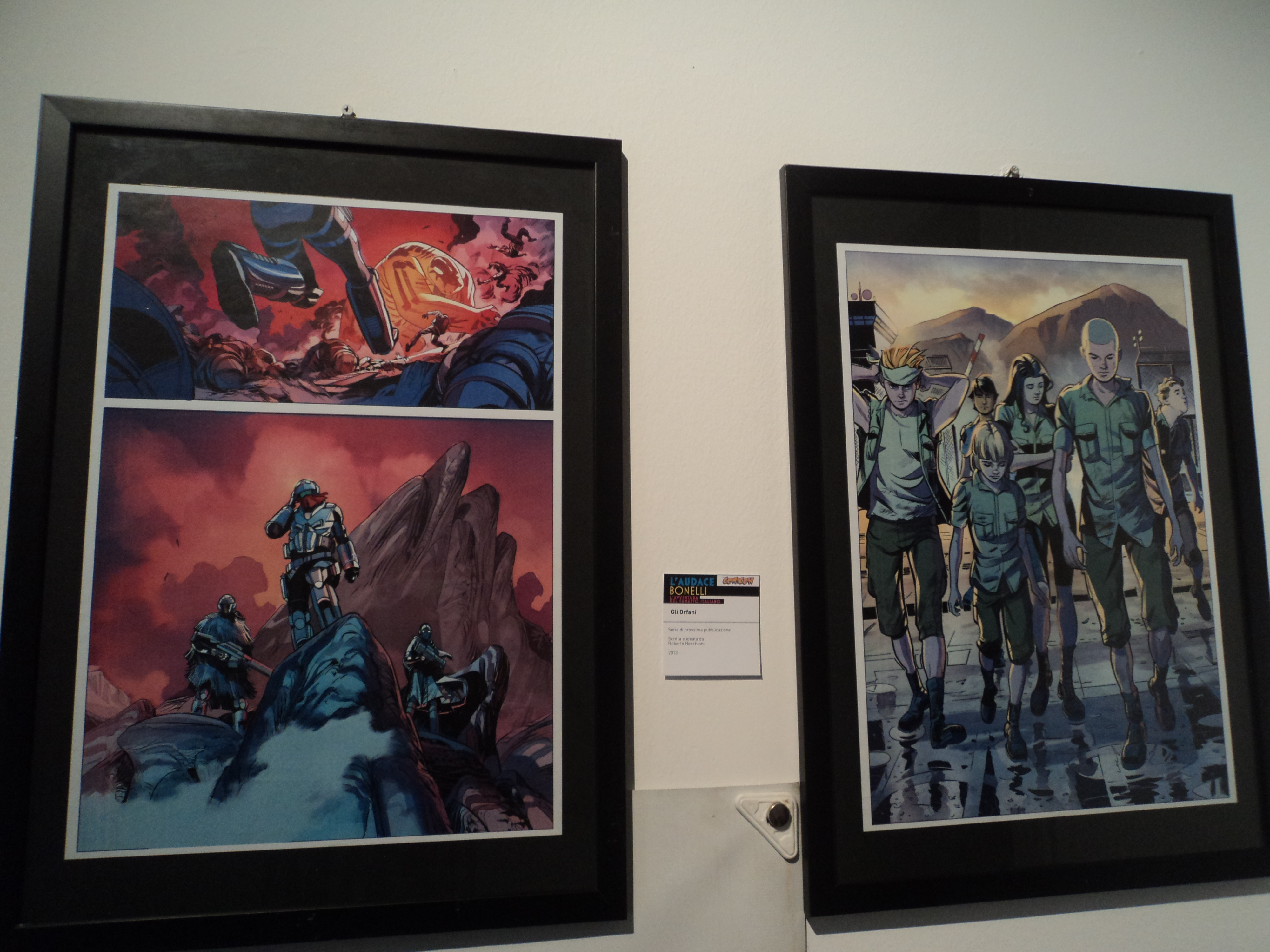 Show L'Audace Bonelli in Rome.